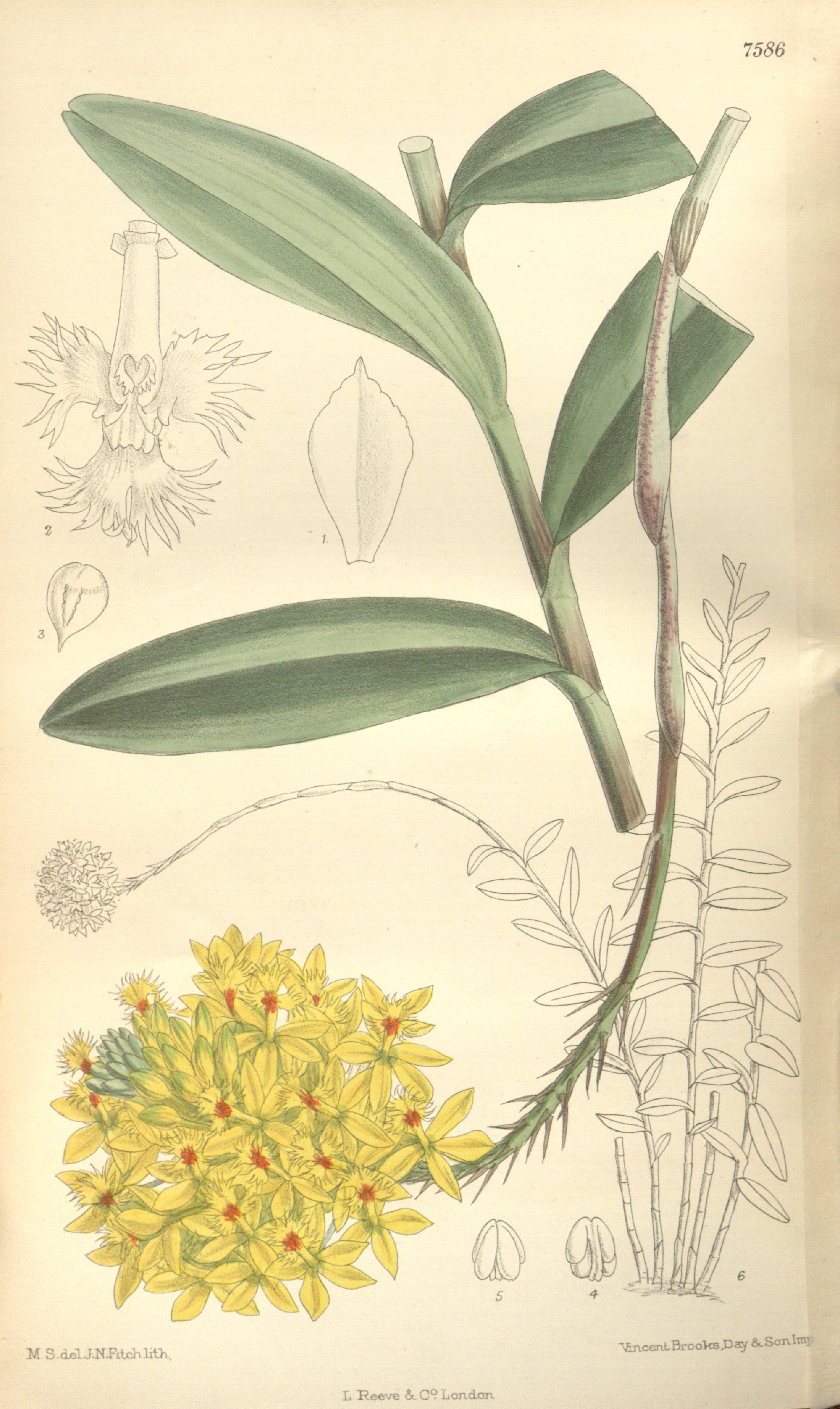 Illustration of Epidendrum xanthinum